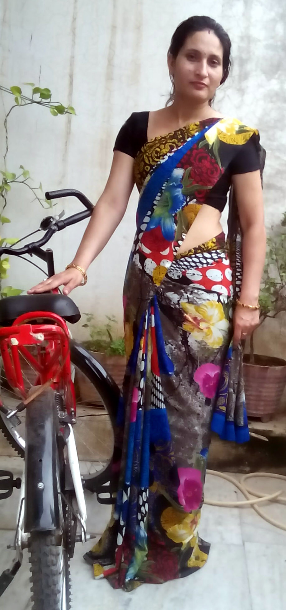 The most graceful traditional Indian dress, sari (saree). A homely Indian female Alka from the north in daily routine sari, perfectly tied and draped. Picture taken in Jaipur, Rajasthan, India. The model posed.